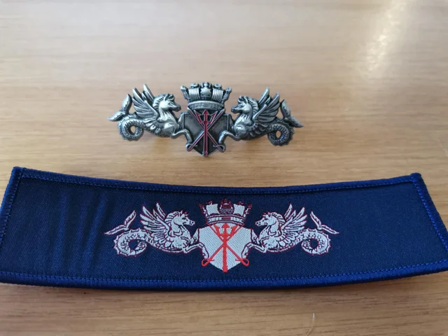 The pin awarded to Royal Navy officers who sucessfully graduate from the RN Principal Warfare Officers Course.